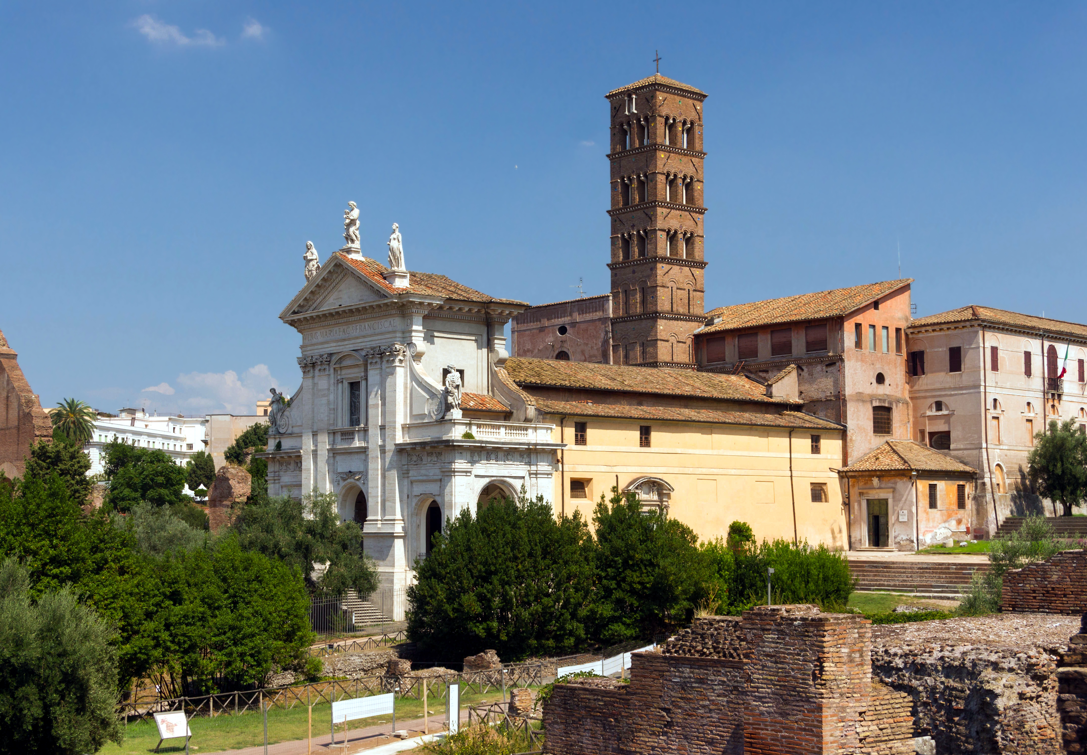 Basilica Santa Francesca Romana, along the Forum Romanum, Rome, Italy.